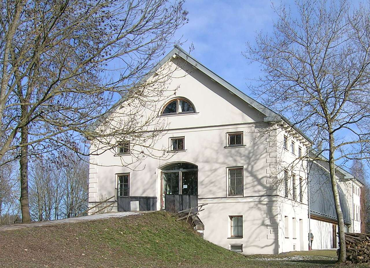 schafhof - european artists house upper bavaria former royal sheep farm and museum in Freising, upper bavaria